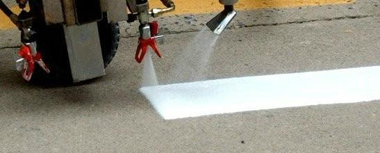 reflective glass beads sprayed on to the road lines coating